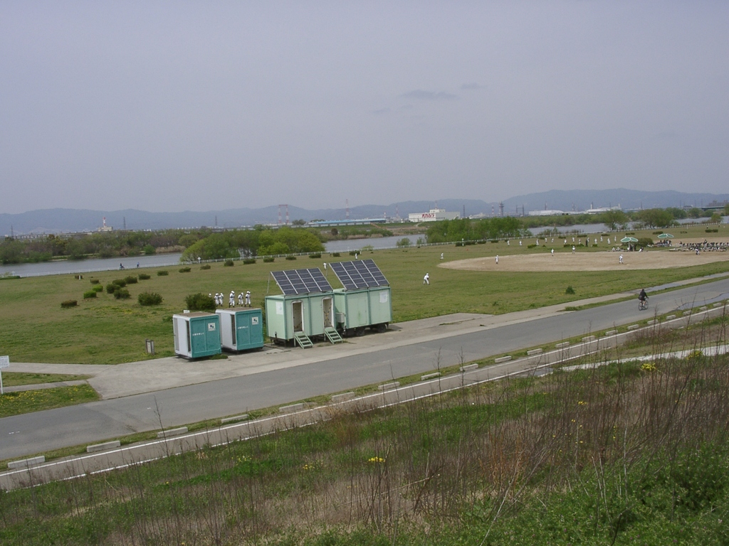 Yodogawa riverside park, Satanishi area. (Moriguchi, Osaka, Japan)